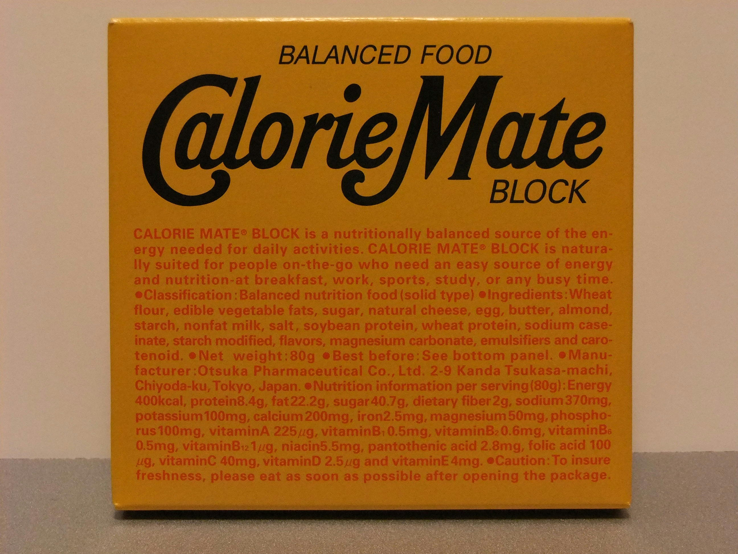 Otsuka Pharmaceutical Co., CalorieMate, Cheese_Flavor